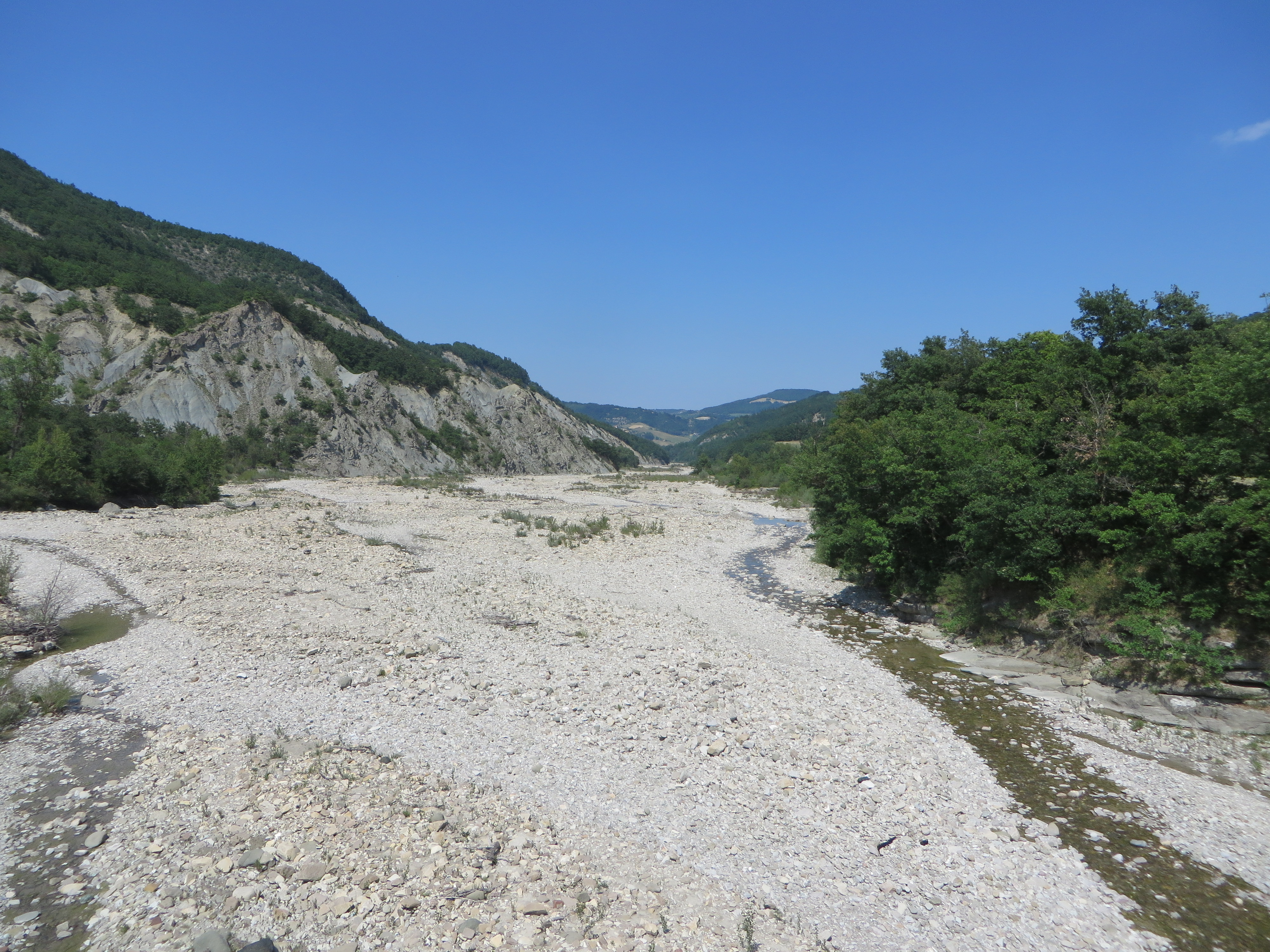 Pessola Creek 2